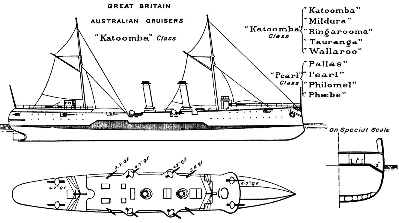 Right elevation, deck plan and hull cross-section diagrams, illustrating British Pearl class cruiser.